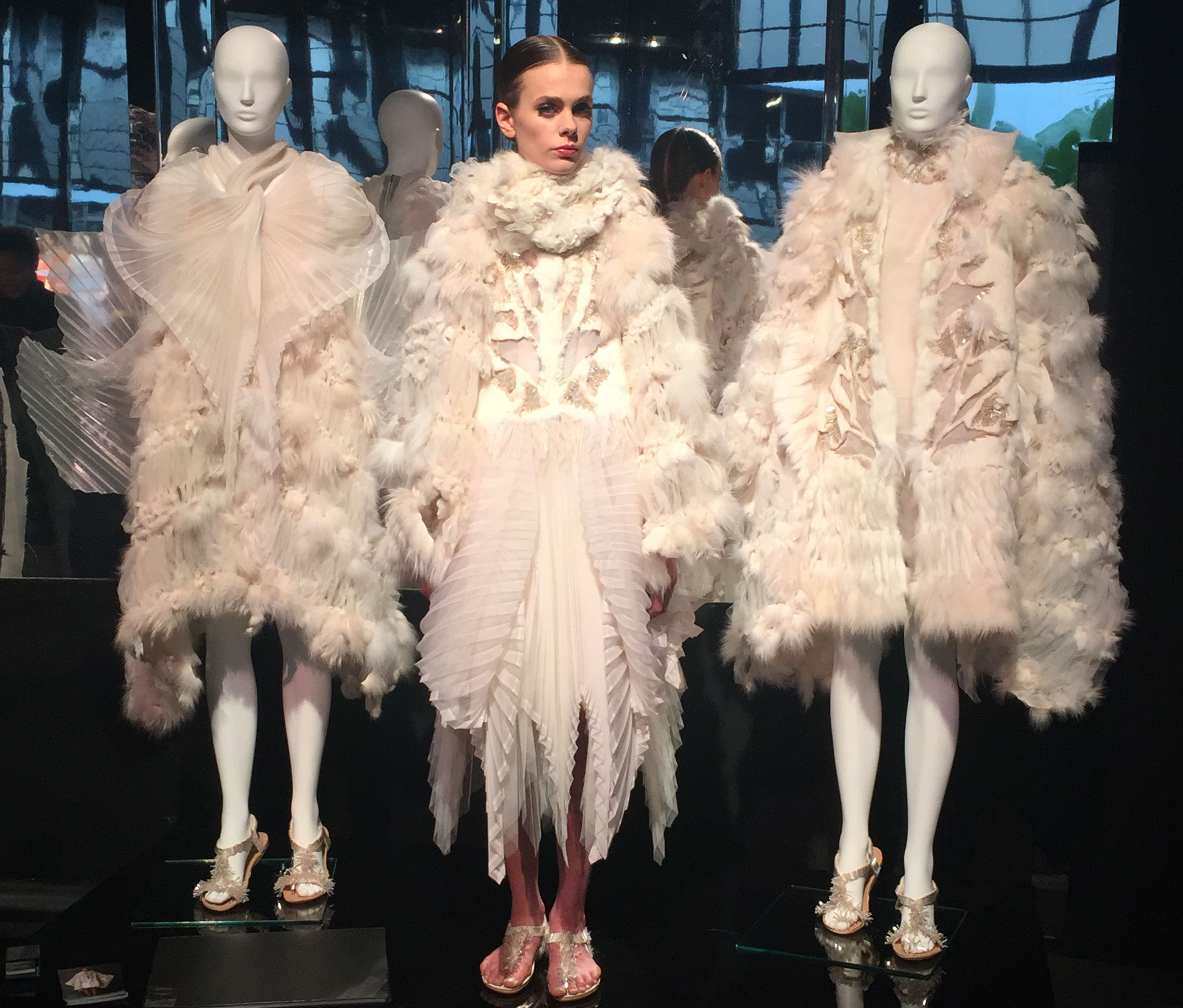 Daniel Kohavi (Israel, Shenkar College) fur project. Designed for "REMIX", in partnership with Italian “Vogue”, International Fur and Fashion Competion, Milano 2016. Best creation (winner) of the competion. Textile and White Fox.